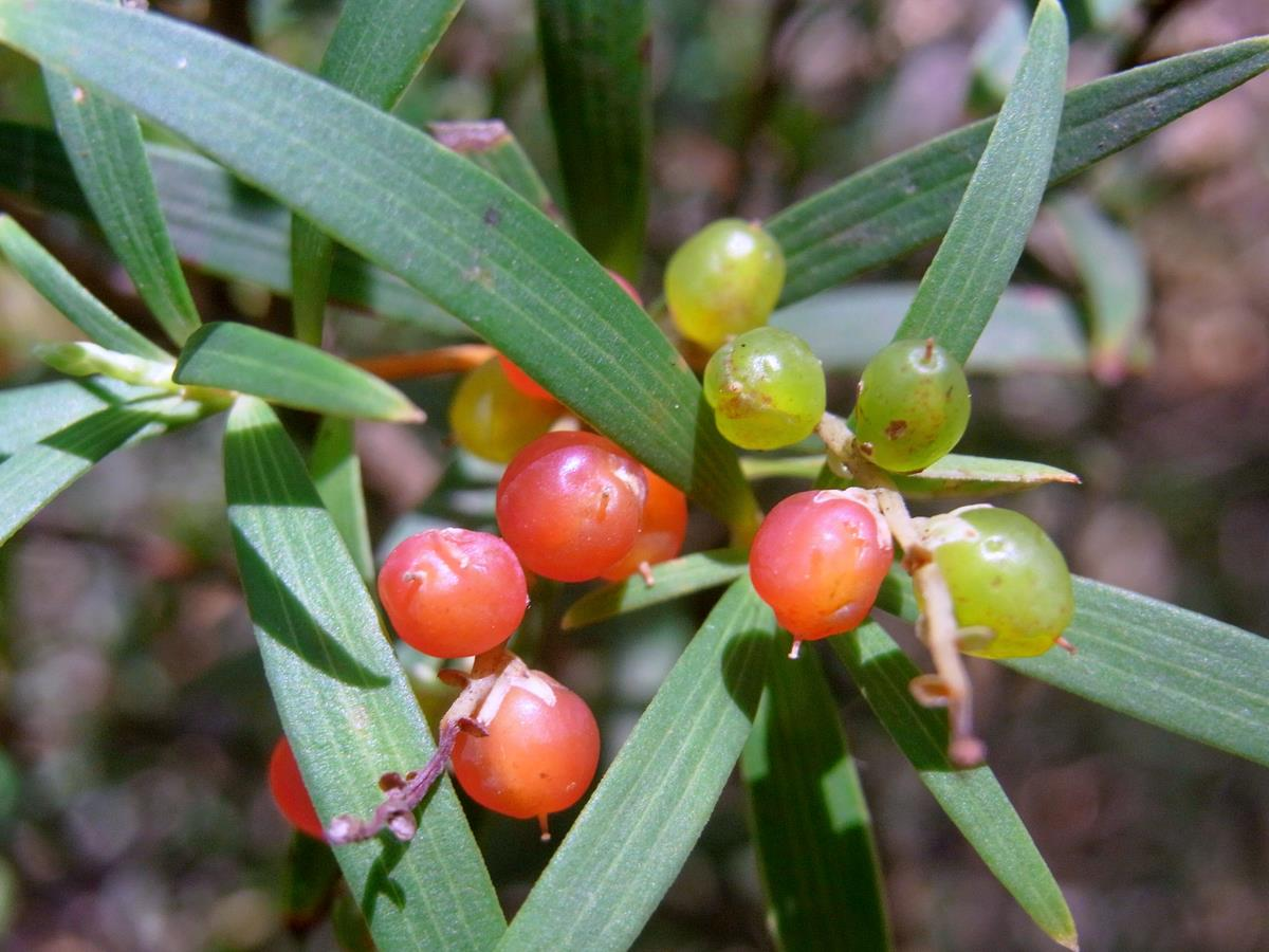 Leucopogon fruit & leaves, Mount Imlay, Australia. Likely to be Leucopogon lanceolatus